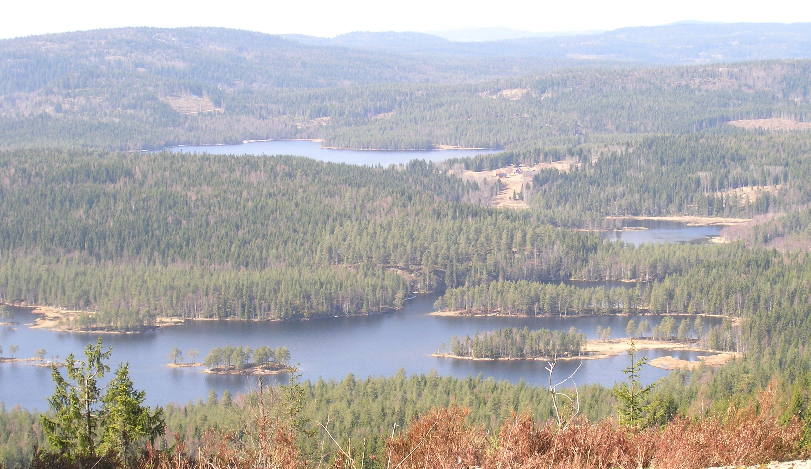 View from Raudløkkollen: Øyungen, Gåslungen and Rottungen